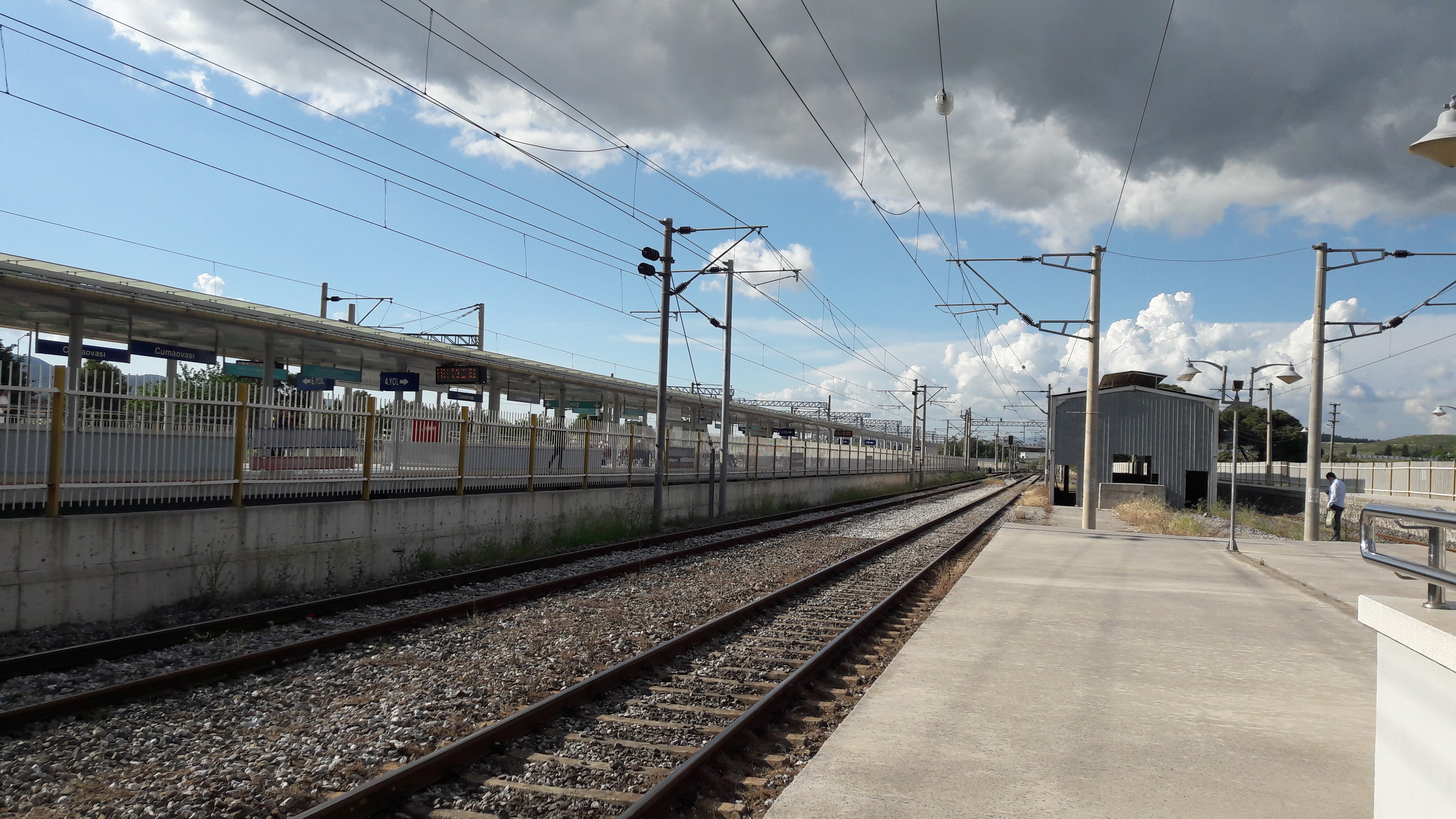 Cumaovasi/Menderes railway station.